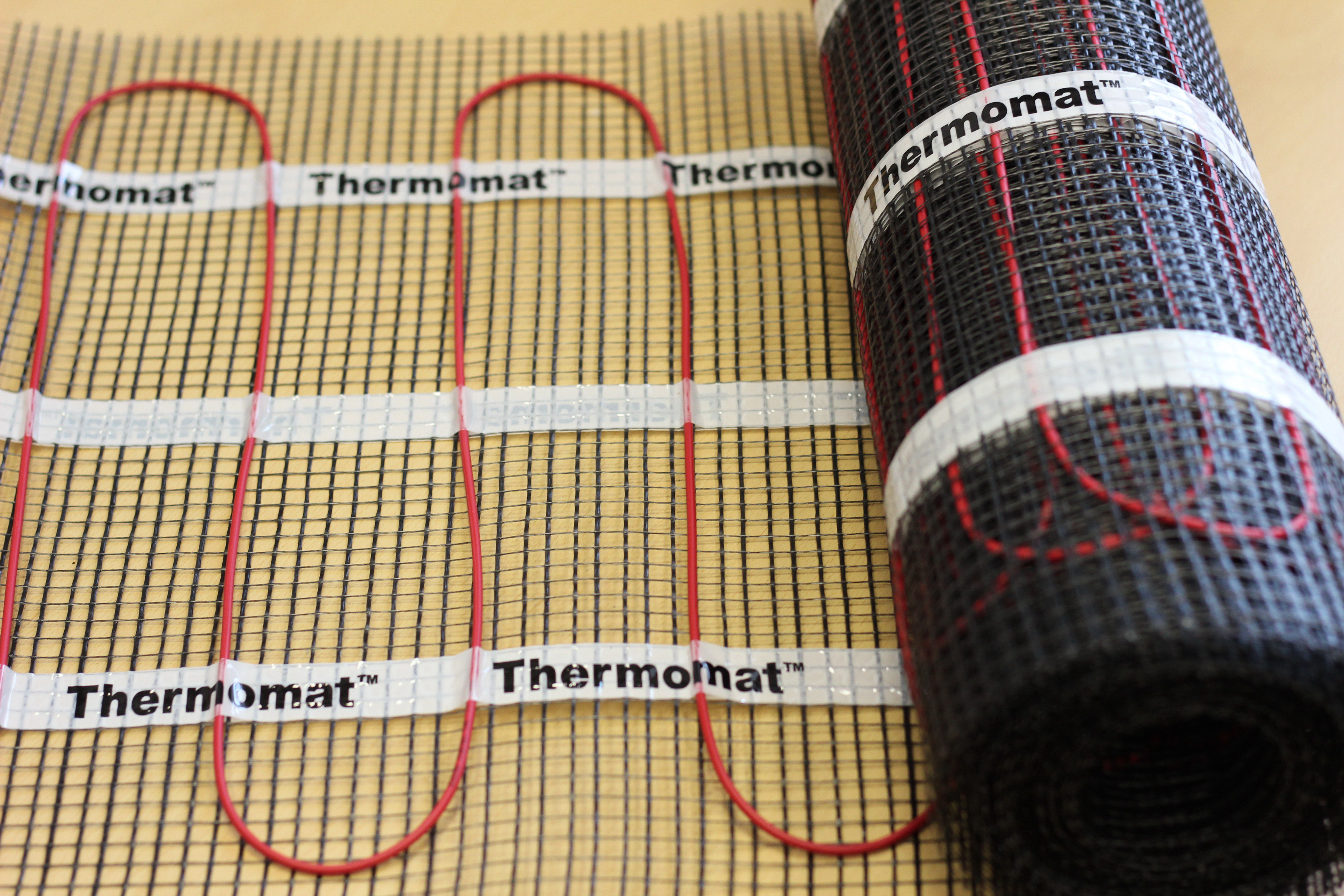 Cable system for floor heating Termomat